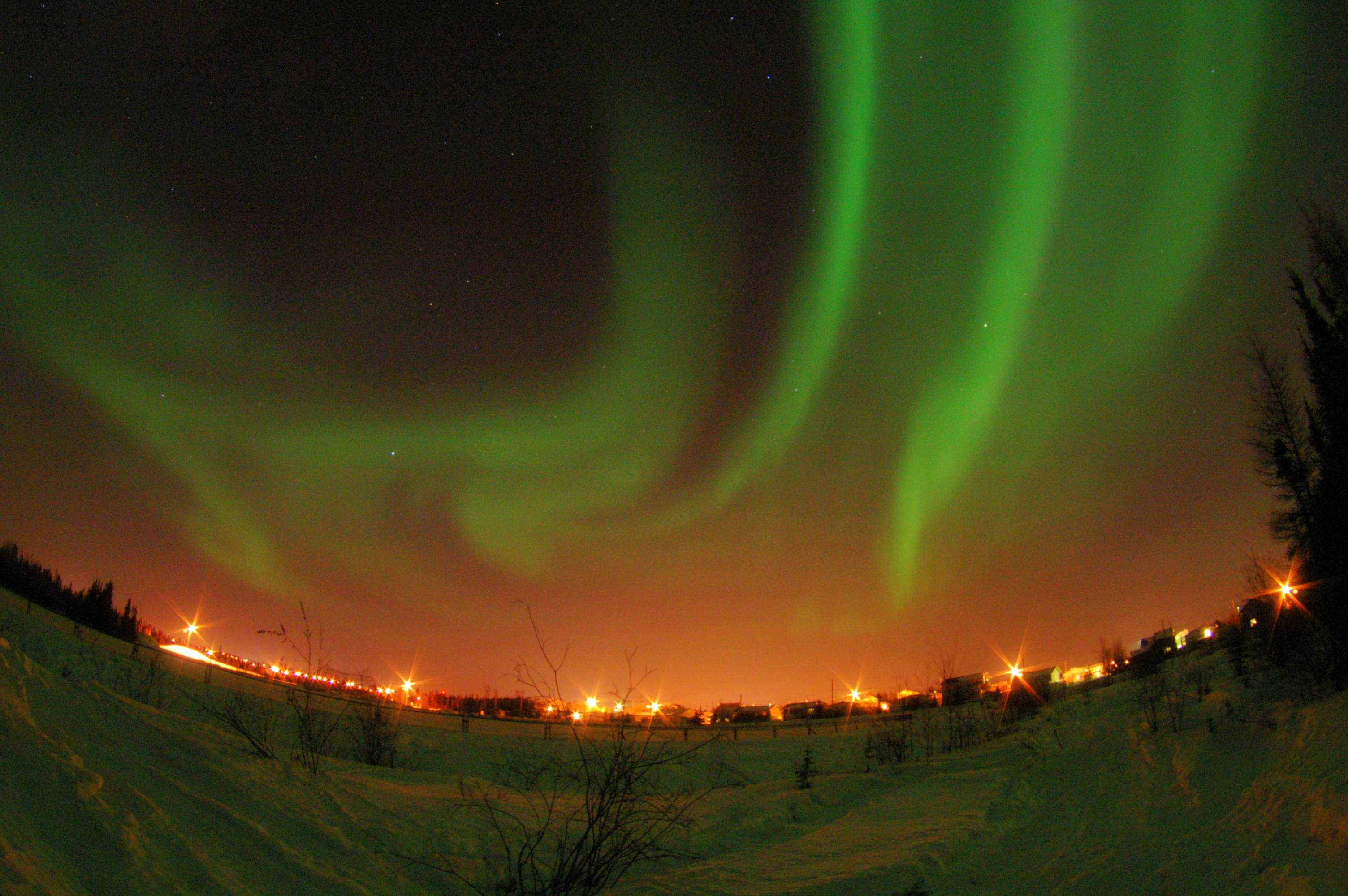 Northern Lights at Yellowknife, NWT, Canada.